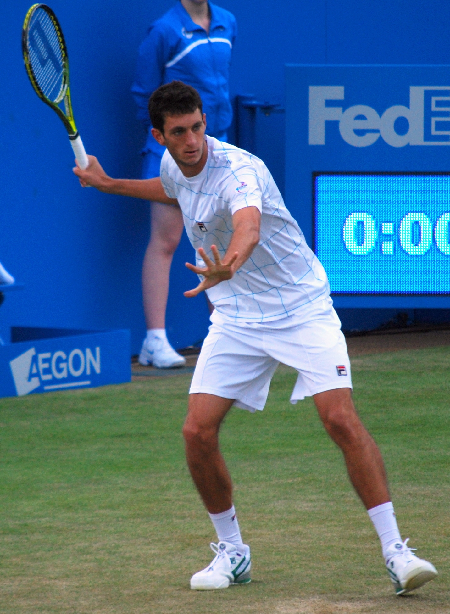 James Ward at Queen's Club, London, England.